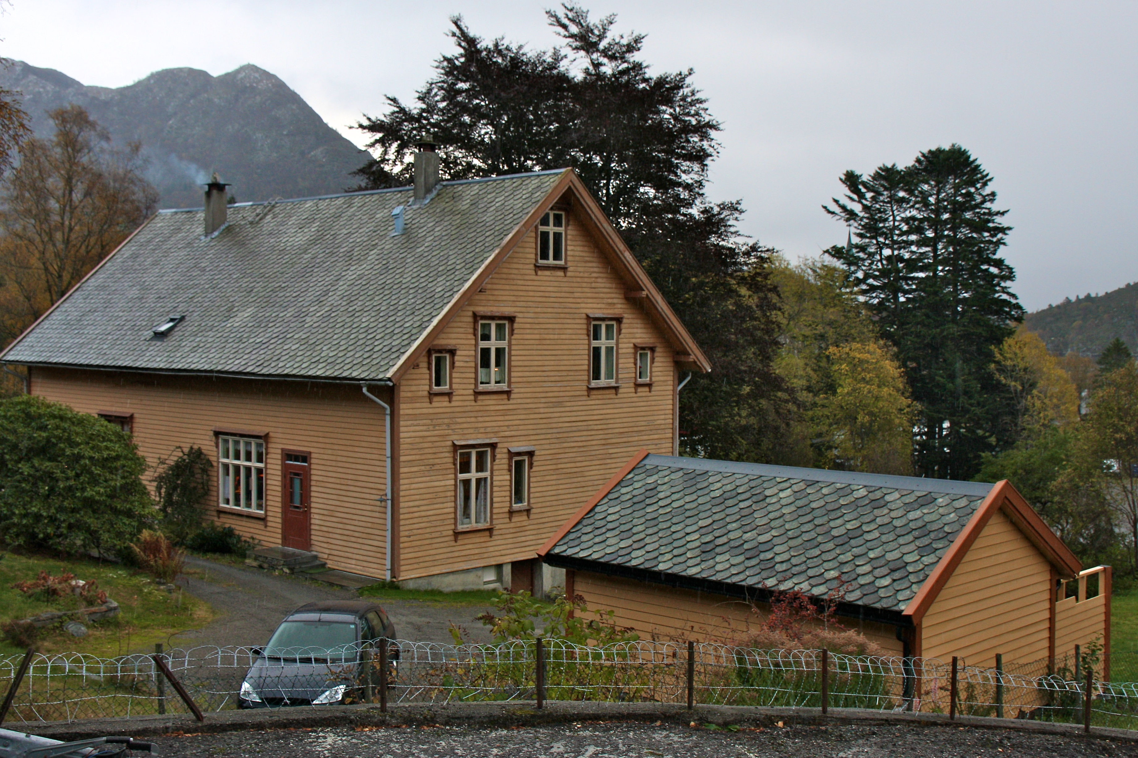 Gulen municipality, Norway.